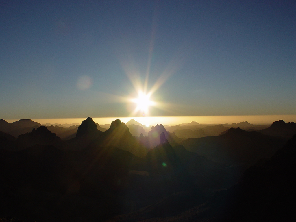 Sunrise from the Asskrem (Tamanrasset, Algeria).